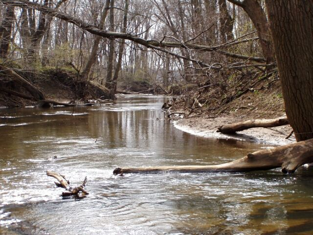 The Little Calumet River in the Heron Rookery at Indiana Dunes National Lakeshore